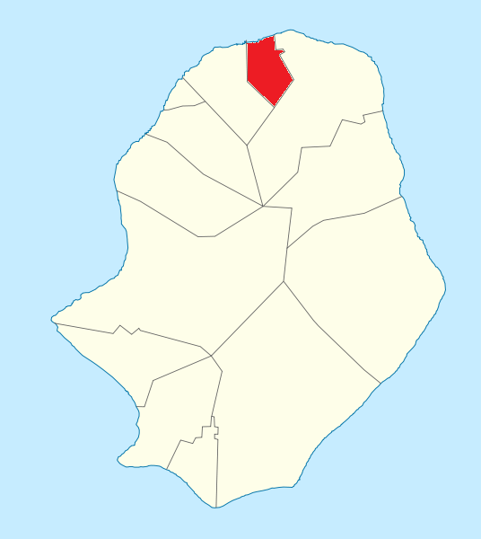 Location map for Toi, Niue. Based on file:Niue location map.svg.